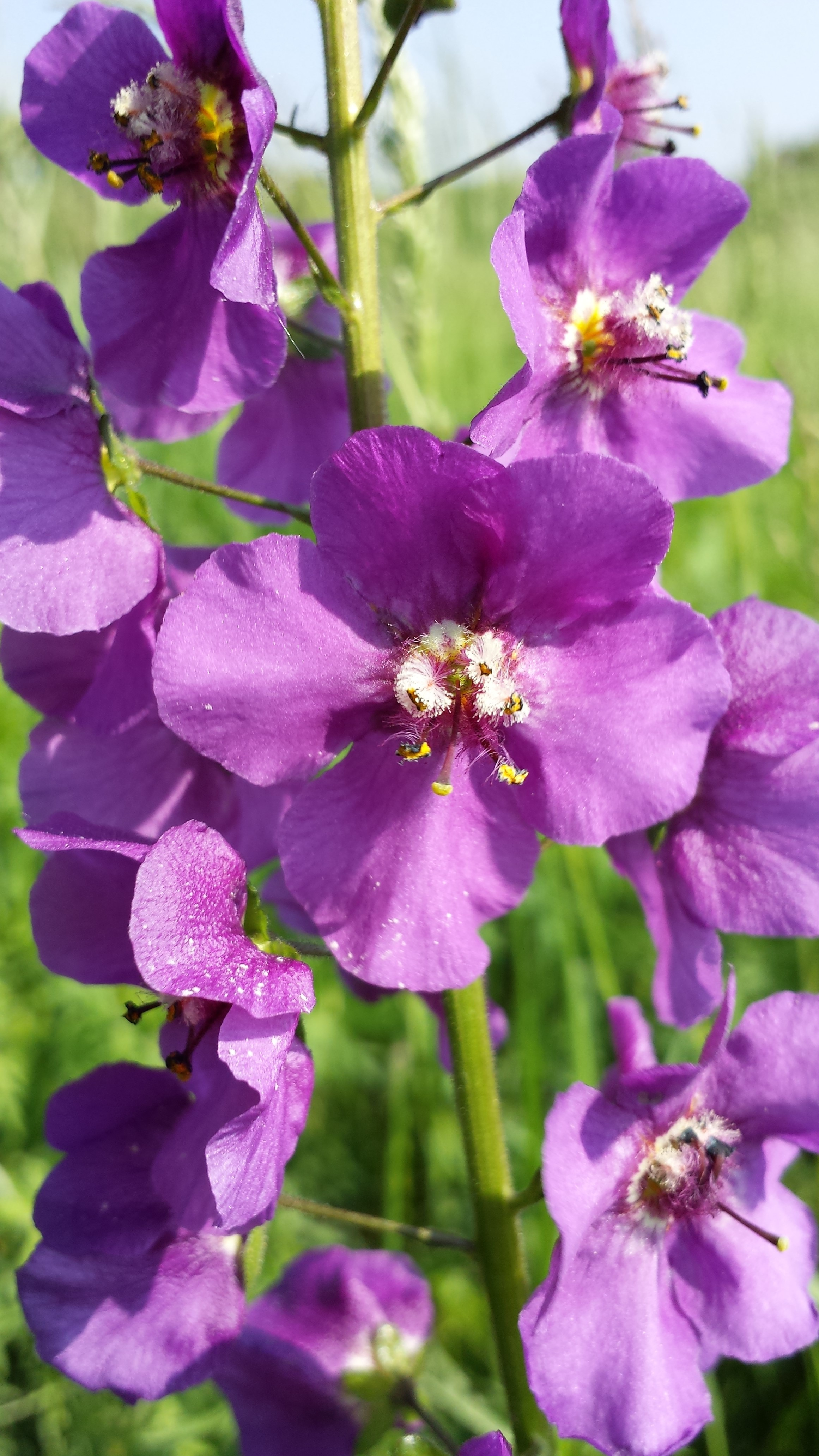 Taxon: Verbascum phoeniceum Location: Alte Schanzen (object XI), Vienna-Floridsdorf Habitat: dry grassland Identified according to: Fischer et. al. ExFlora Austria etc. 2008